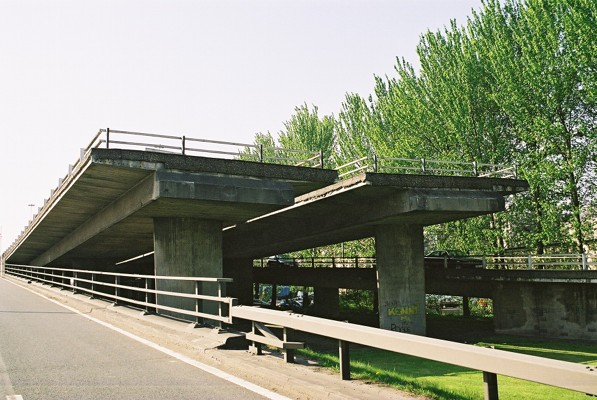 Ghost ramps at M8 West Street (Junction 20), taken in May 2003 while the West Street on-ramp closed for bridge works. Image also available as part of set at